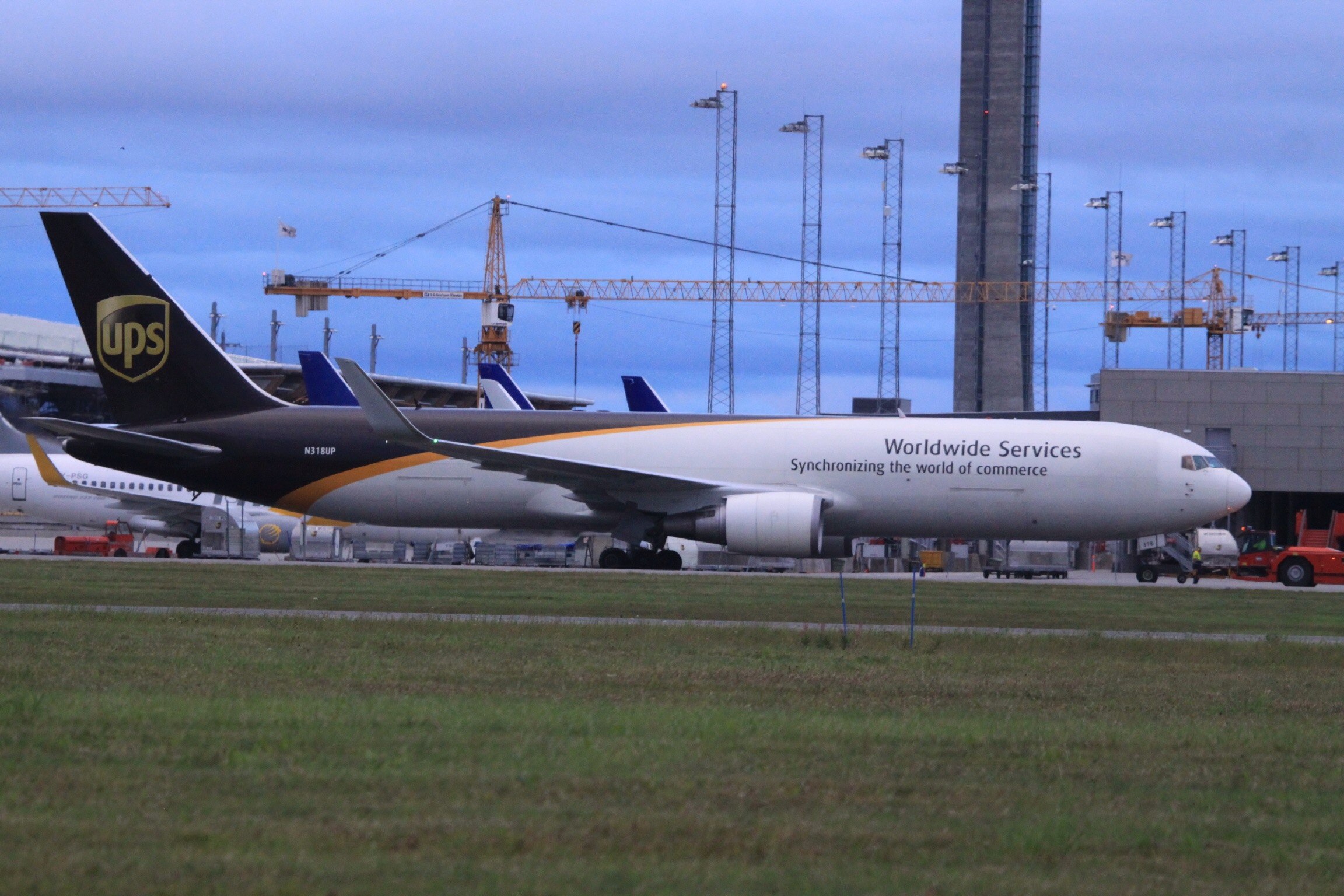 At Oslo Gardermoen